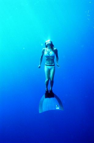 woman free diving with monofin